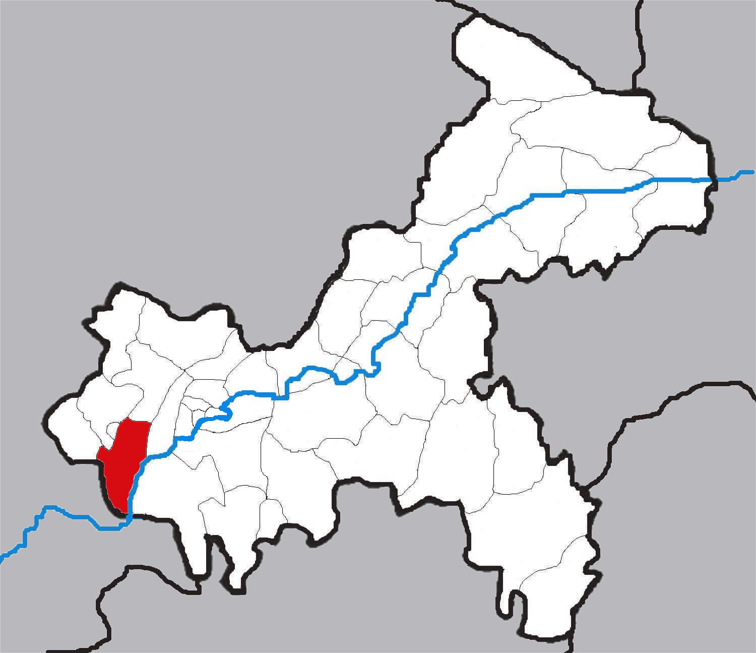 Administration maps of Chongqing, China